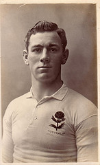 Rugby union & rugby league player